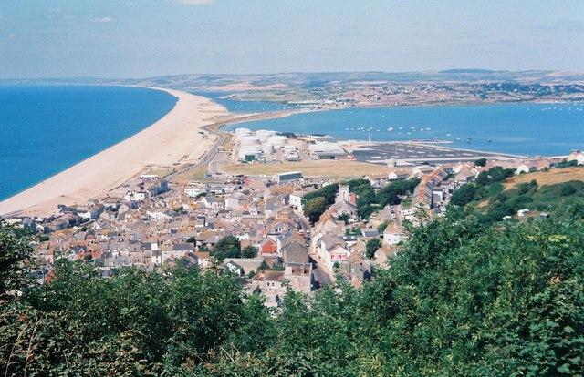 Portland: view over Fortuneswell ...and, of course, Chesil Beach in the background.